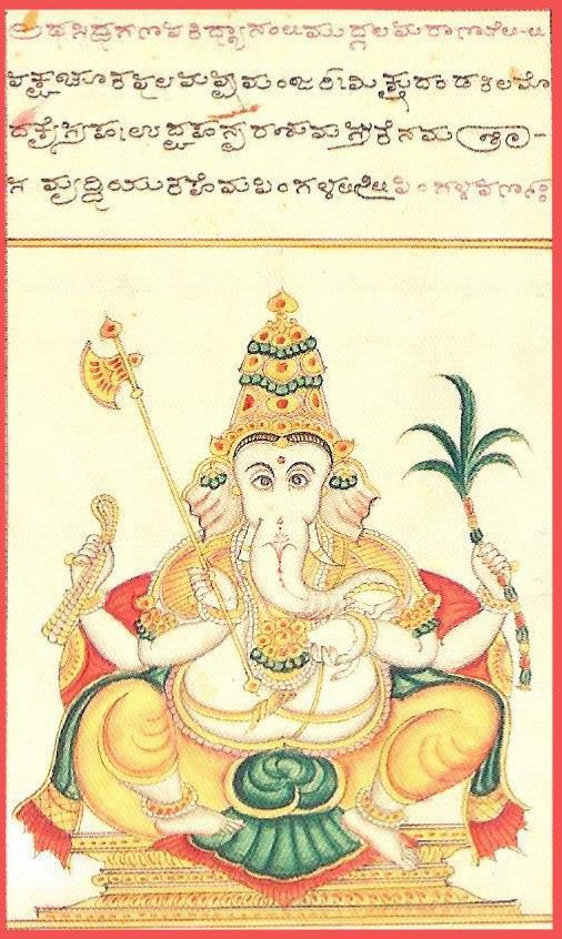 Reproduction from the Śrītattvanidhi ("The Illustrious Treasure of Realities"), an iconographic treatise compiled in the 19th century in Karnataka, India, by order of the then Maharaja of Mysore, Krishnaraja Wodeyar III (b. 1794 - d. 1868).